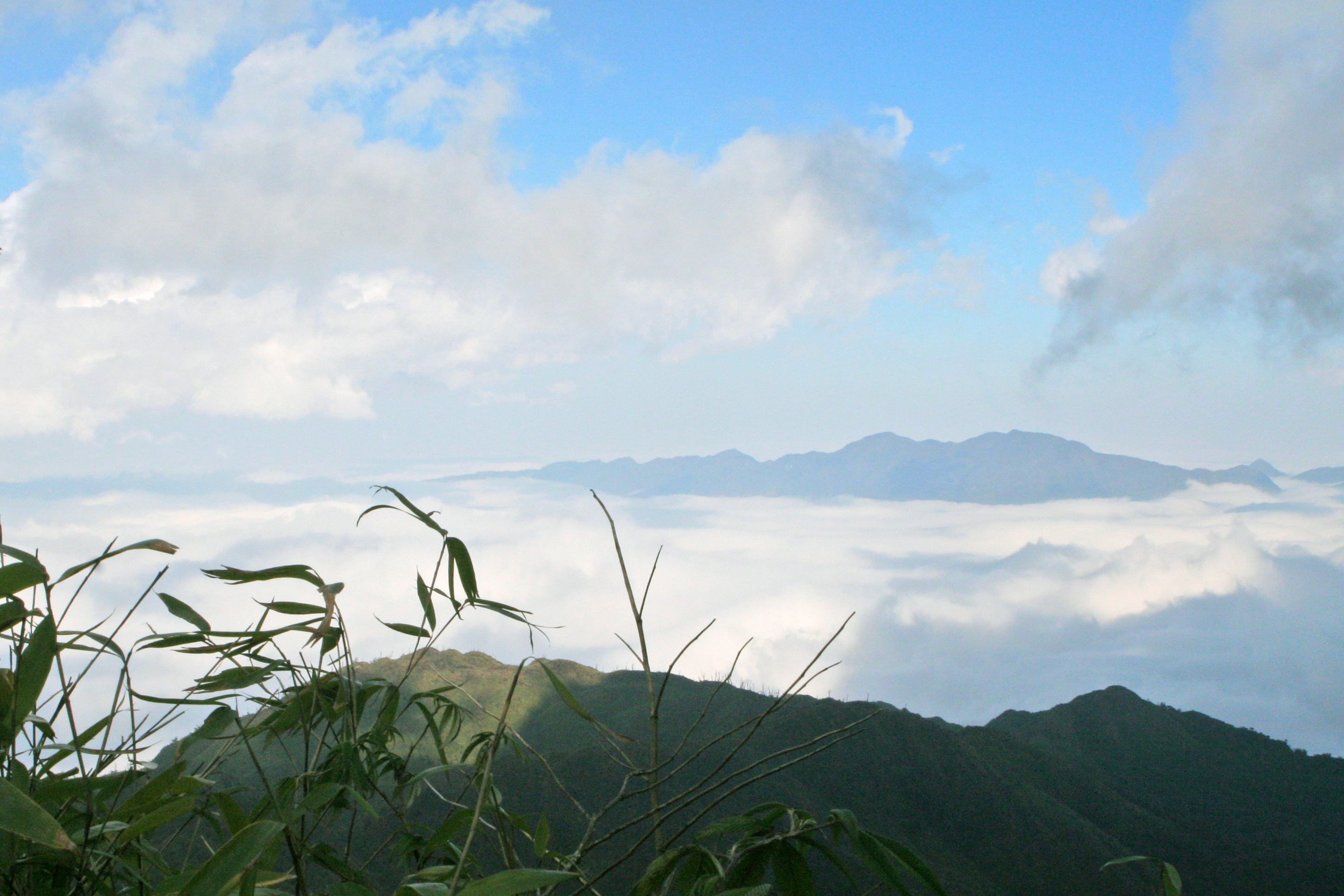 The Hoàng Liên Sơn mountain range of Vietnam. The pic was taken in spring (February). It is very cold and cloudy at this time of the year (-2C with my pic). However the weather in September is hotter and makes the sky pure enough to look around. There are several ways to climb the top with different levels of difficulty and dangers. If you do climbing in cold season (From Nov to Mar) the voyage will surely be more dangerous and take much more time. One of the worst dangers is that you can go astray in the forest or broke yourself with sharp, high cliffs. However it's much easier in dry season (Sept. recommended).